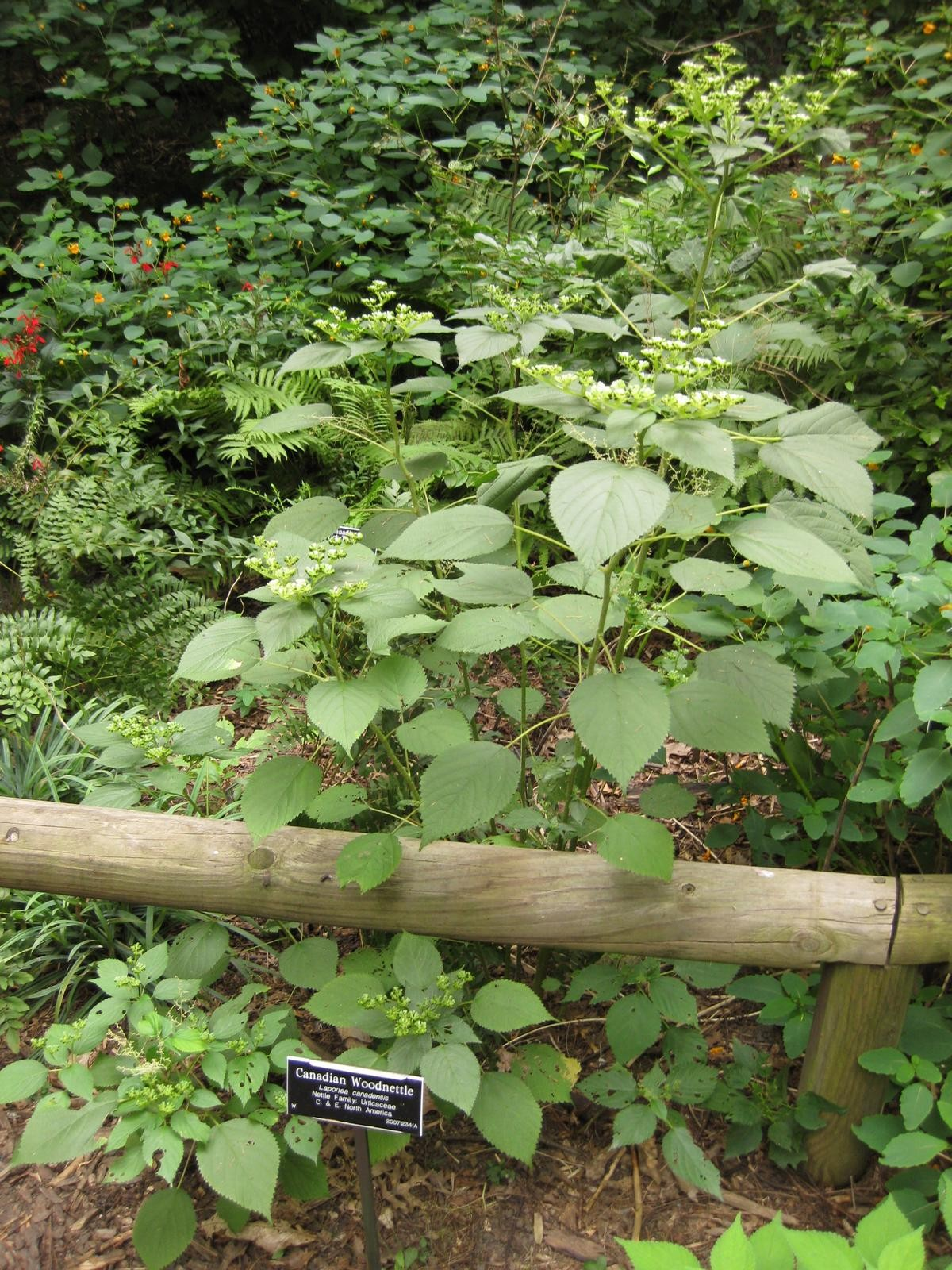 Canadian wood-nettle (Laportea canadensis), photographed at Brooklyn Botanic Garden (New York) in September